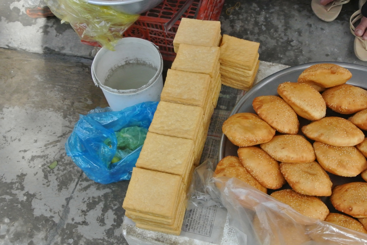 Vietnamese Atsuage. in Vinh Thuan town, Kien Giang province.